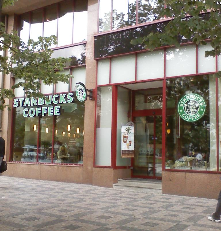 Starbucks store at Wenceslas square in Prague, The Czech Republic